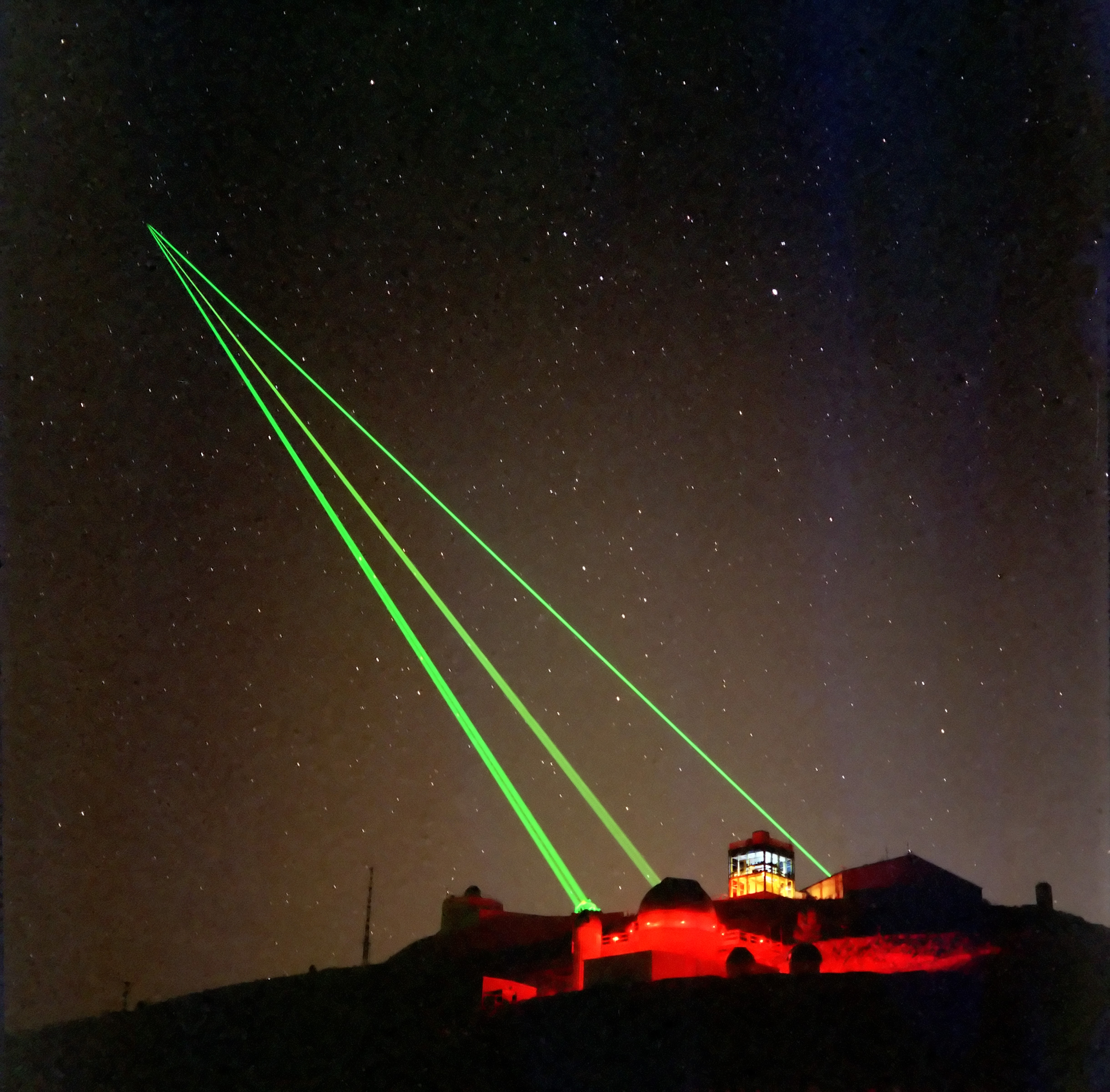 edit of Starfire Optical Range - three lasers into space.jpg, noise reduction and downsamped